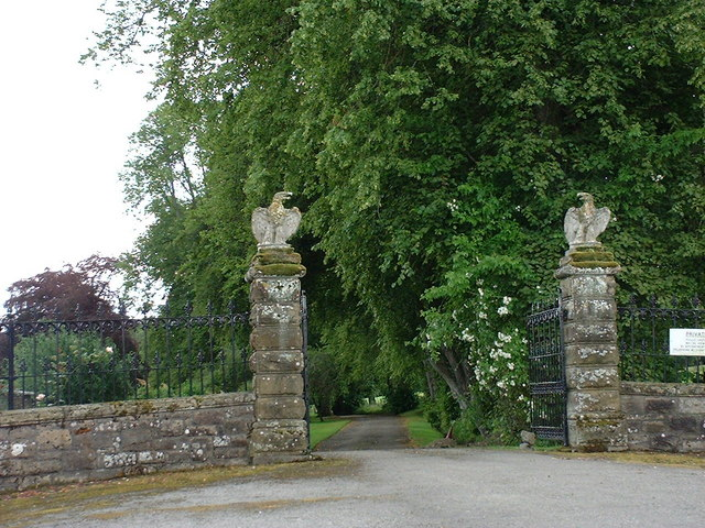 Foulis Castle gateway.